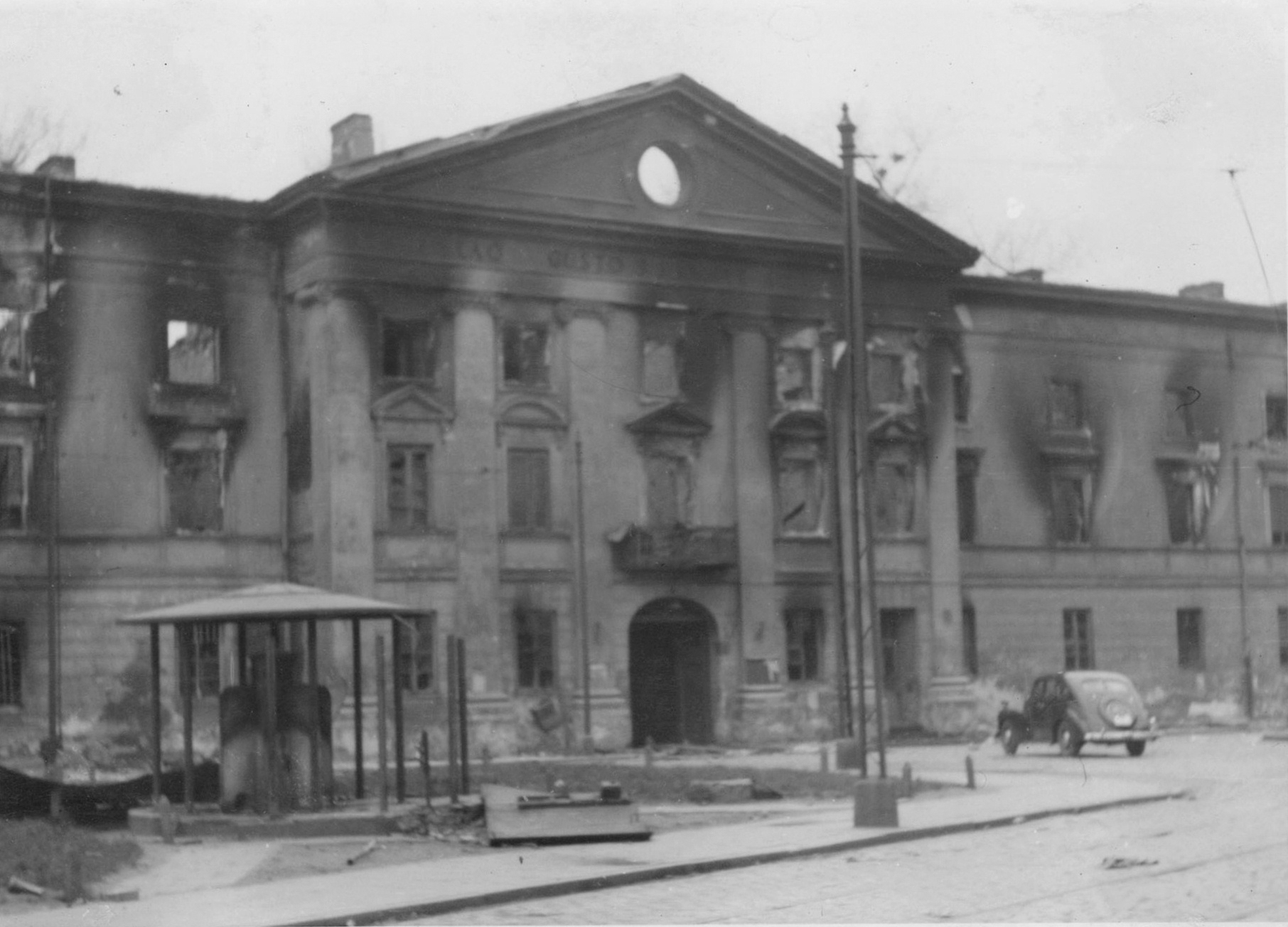 Stroop Report: a report written by Jürgen Stroop for Heinrich Himmler about liquidation of Warsaw Ghetto in May 1943.